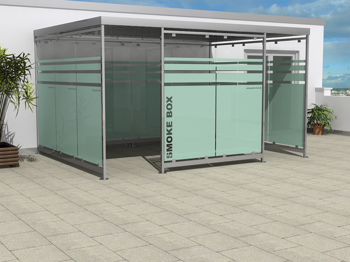 Example of an outdoor smoker's cabin / smoker's shelter without ventilation system